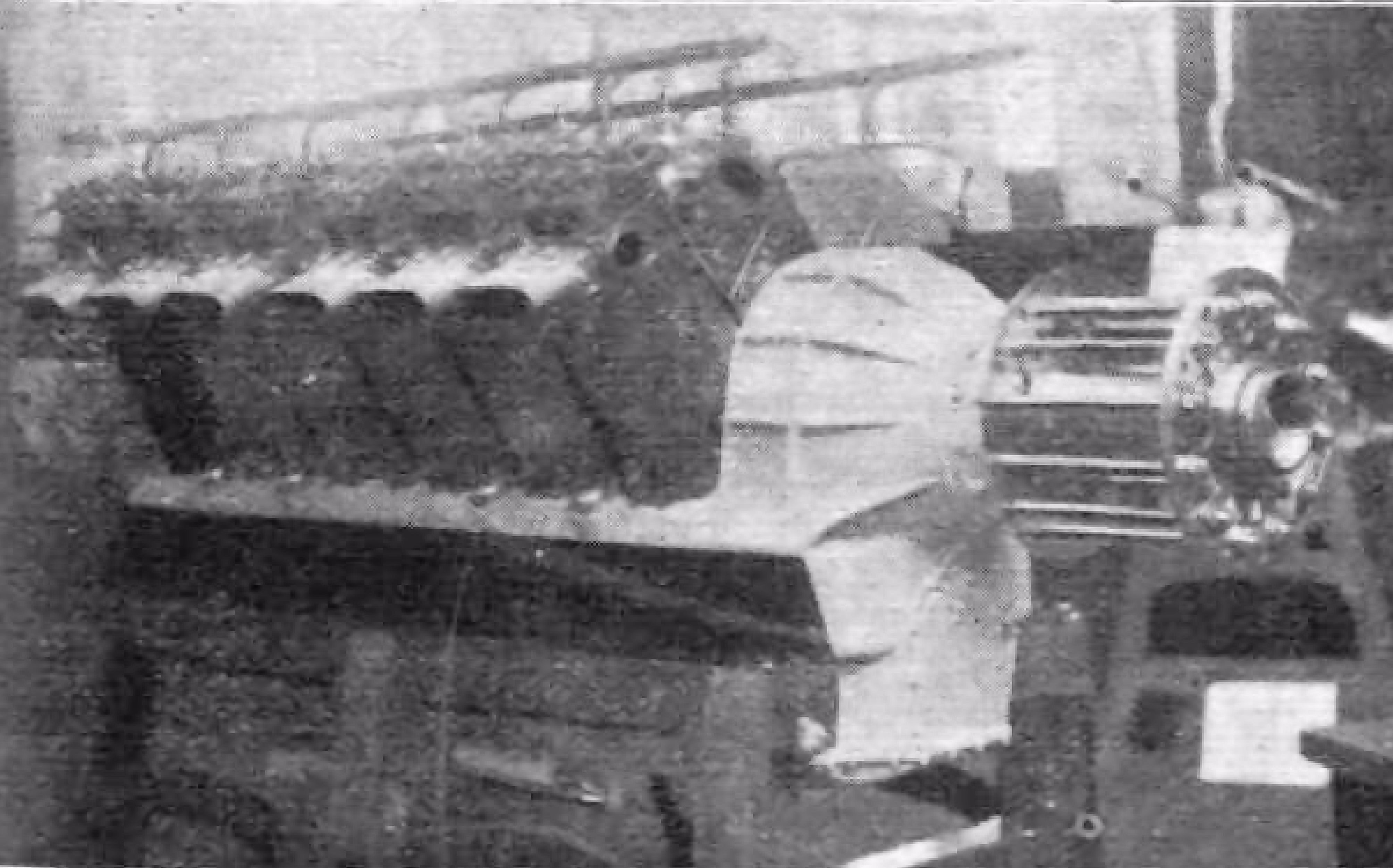 An 800hp Sunbeam Sikh V-12 water-cooled piston engine at the 1919 Paris Aero Salon (Sunbeam also produced a 400hp 6-cyl in-line engine called Sikh)